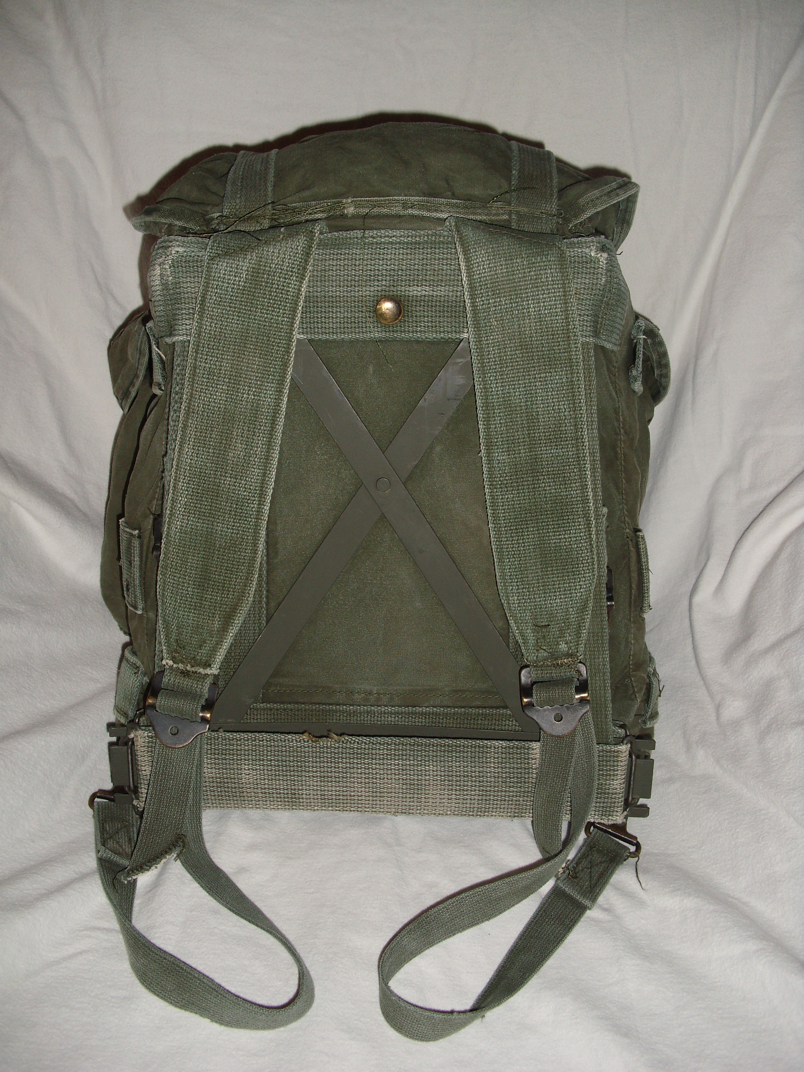 ARVN Rucksack rear view